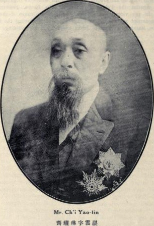 Qi Yaolin, Zhenyan (born 1863)